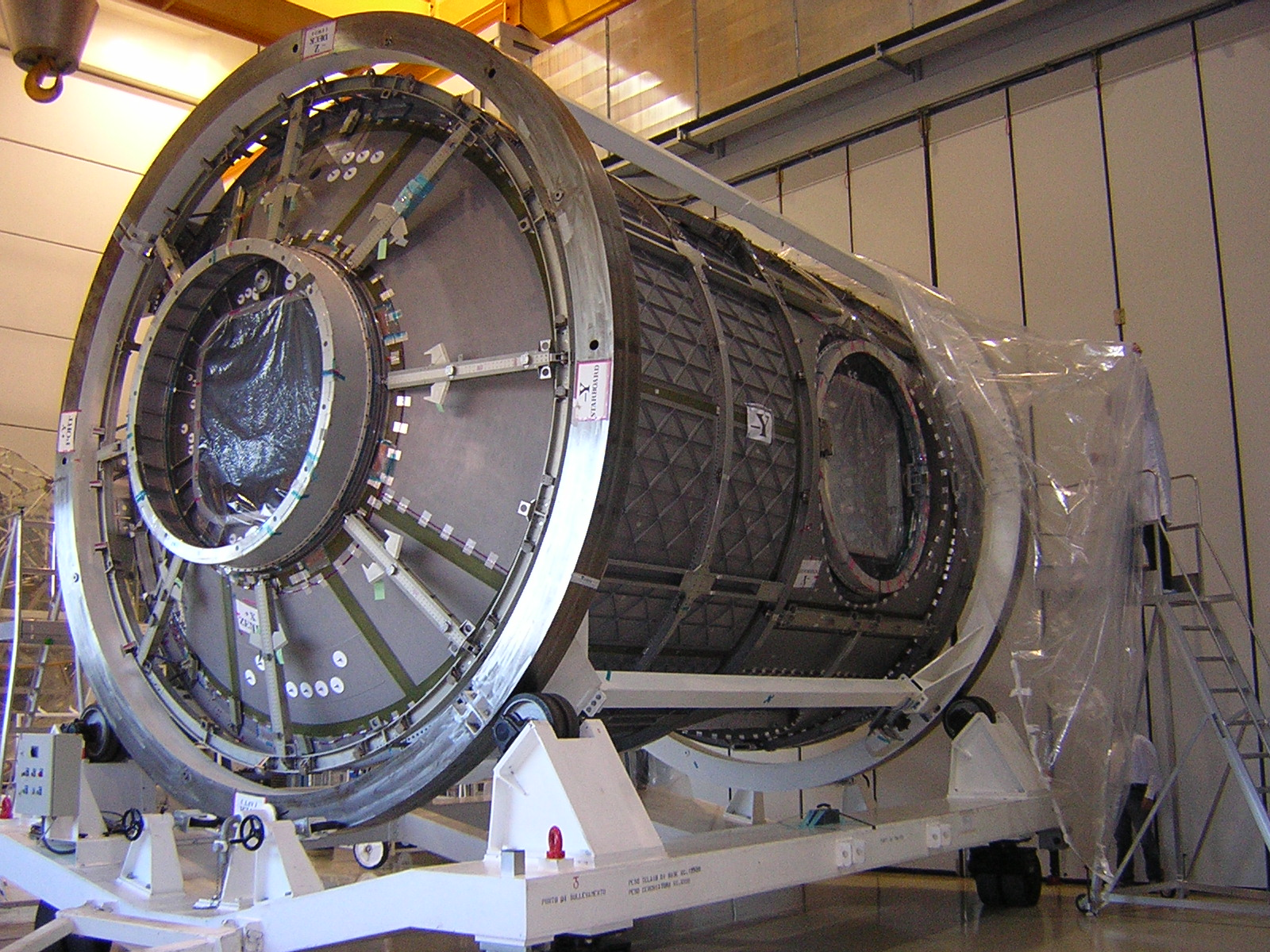 Tranquility, the third and final node module of the International Space Station, in the airlock of Alenia Aeronautica's clean room facility in Italy.